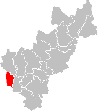 Map showing the municipality of Corregidora, State of Queretaro, Mexico